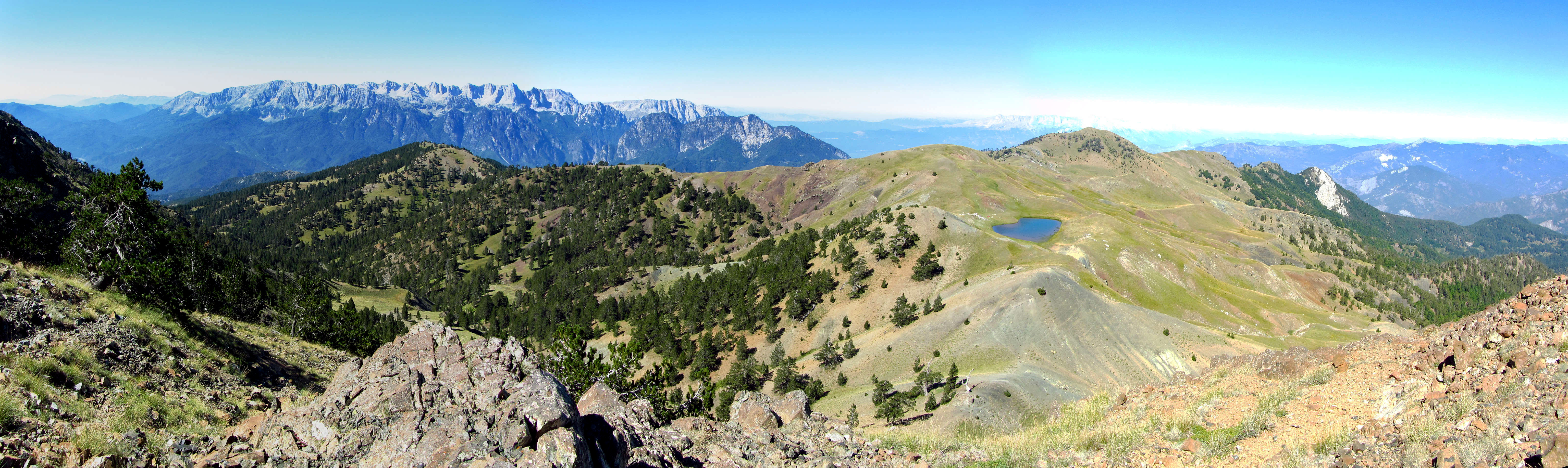 This is a photography of Natura 2000 protected area with ID GR2130002